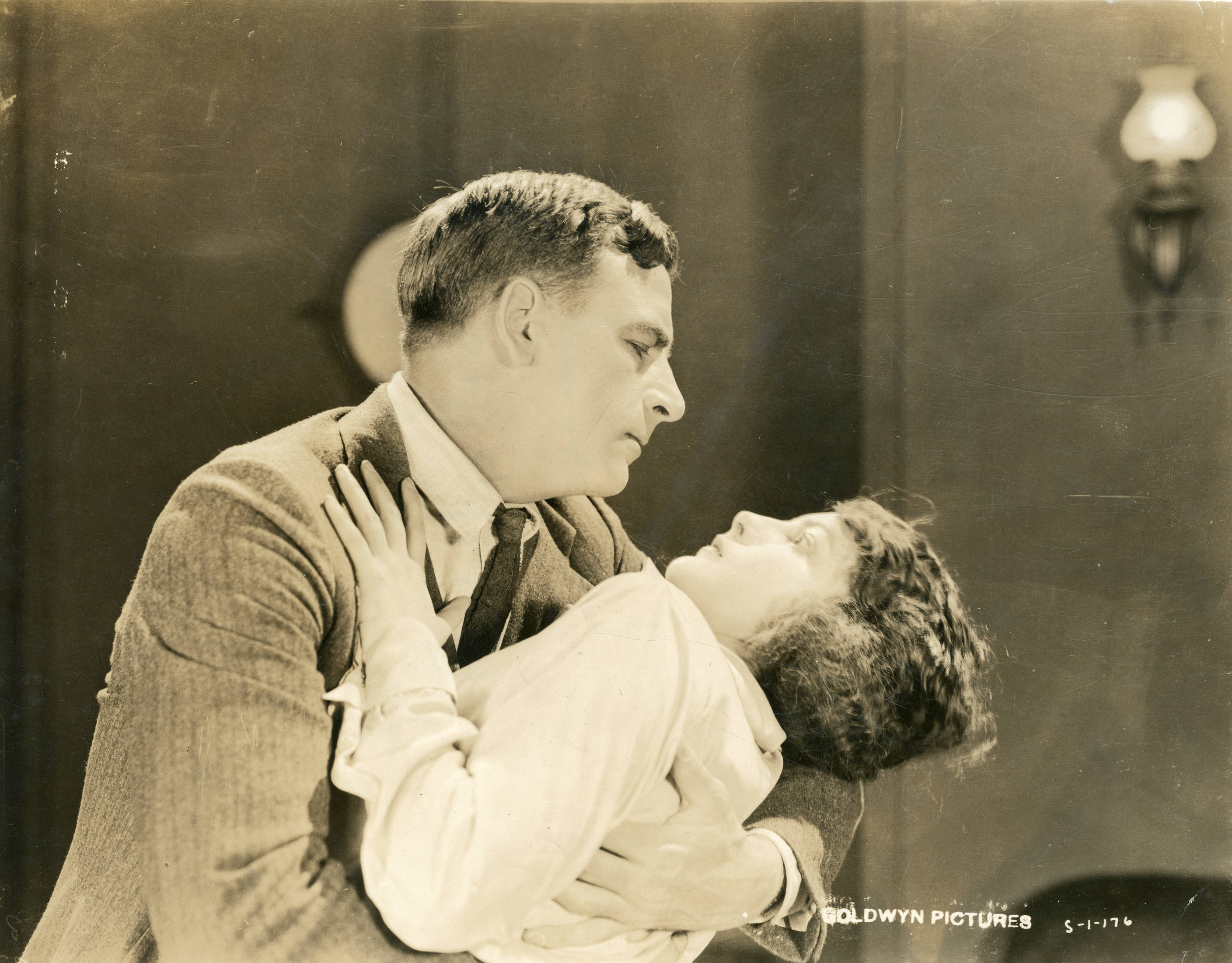 Still from the American drama film The Spoilers (1923). Subjects: motion pictures, actors, actresses